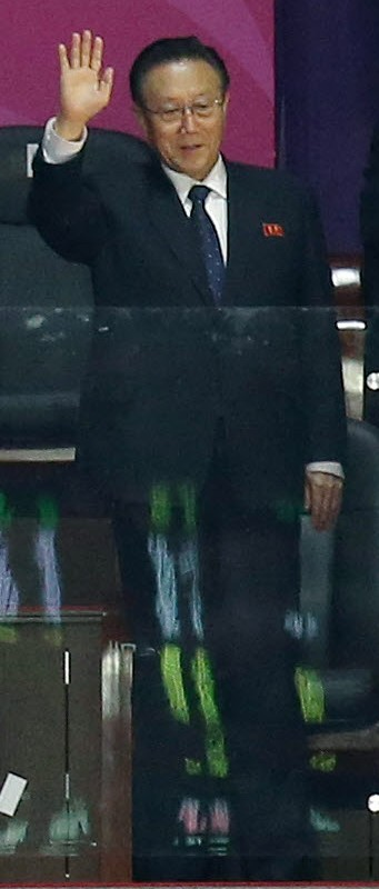 Incheon Asian Games 2014 Closing Ceremony October 4, 2014 Incheon Asiad Main Stadium, Incheon-si Ministry of Culture, Sports and Tourism Korean Culture and Information Service ( Official Photographer : Jeon Han This official Republic of Korea photograph is CC-BY-SA-2.0-licensed, so while restrictions such as personality or privacy rights may apply, in general, manipulations are allowed. If you require a photograph without a watermark, please use Flickr e-mail.